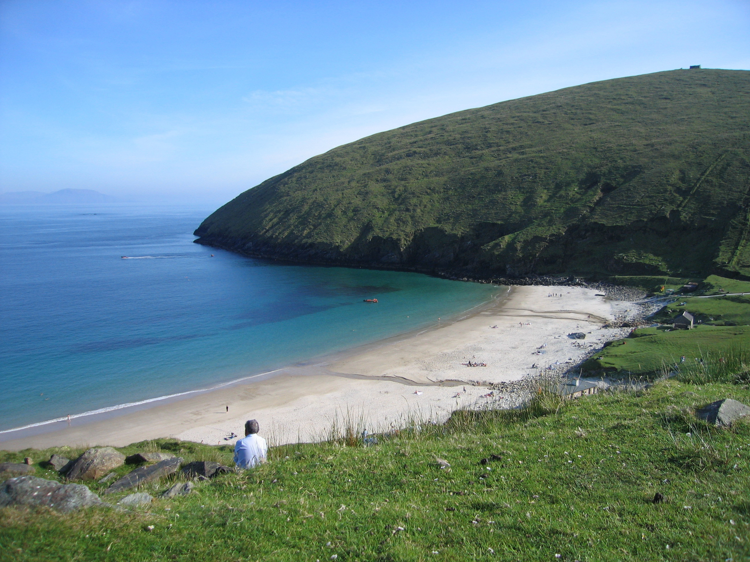 Author:Eoghan888